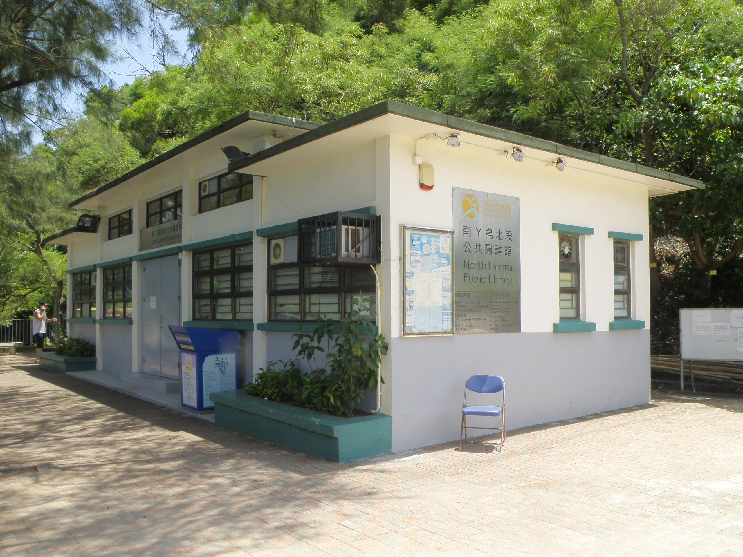 North Lamma Public Library in Lamma Island, Hong Kong.